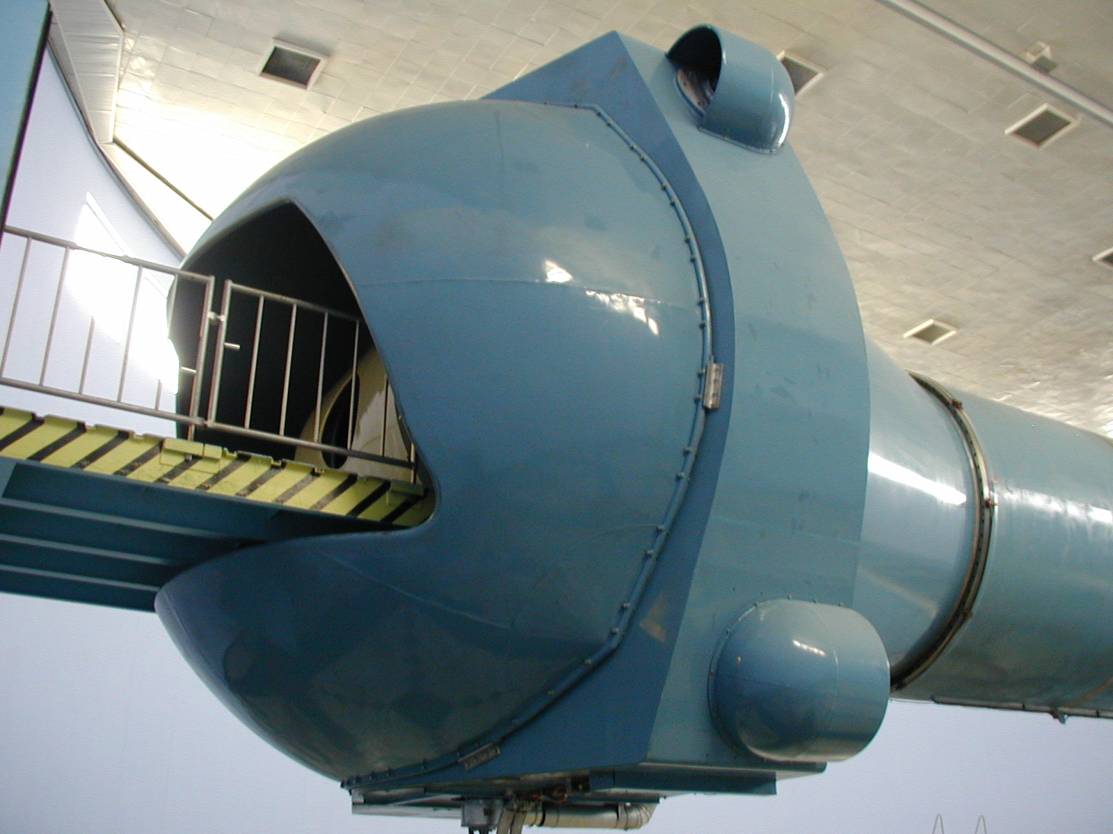 Mother of all centrifuges - Mouth of centrifuge at Star City, Russia Author: Harald Illig URL: I took this picture in Oct. 2000